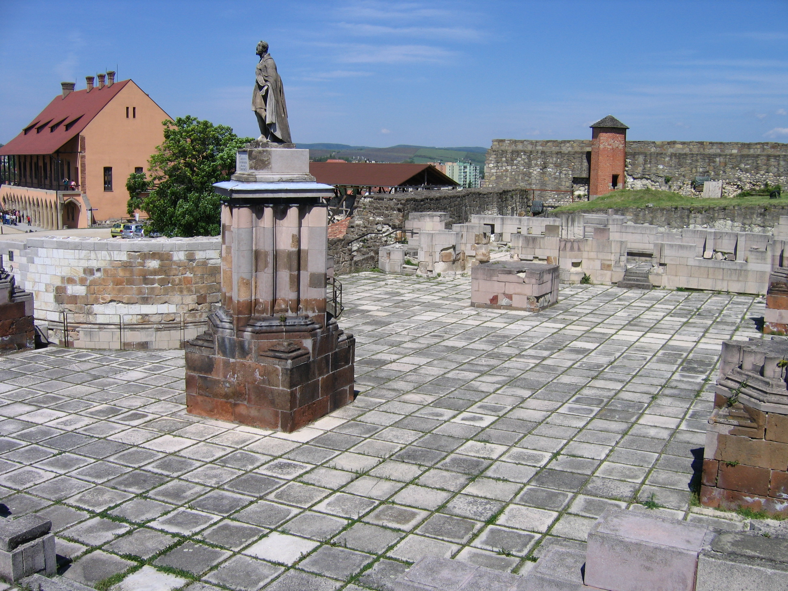 Castle of Eger, Hungary